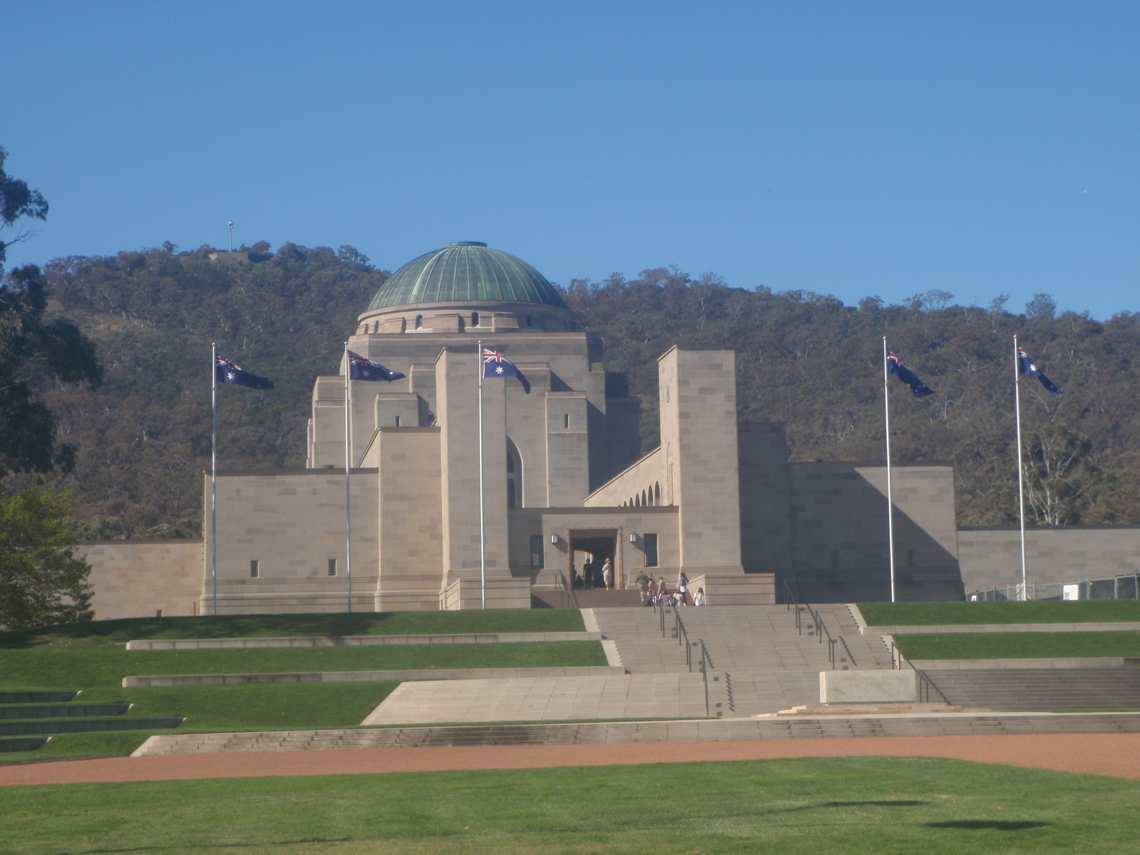 The Australian War Memorial in Canberra from the bottom of the steps.